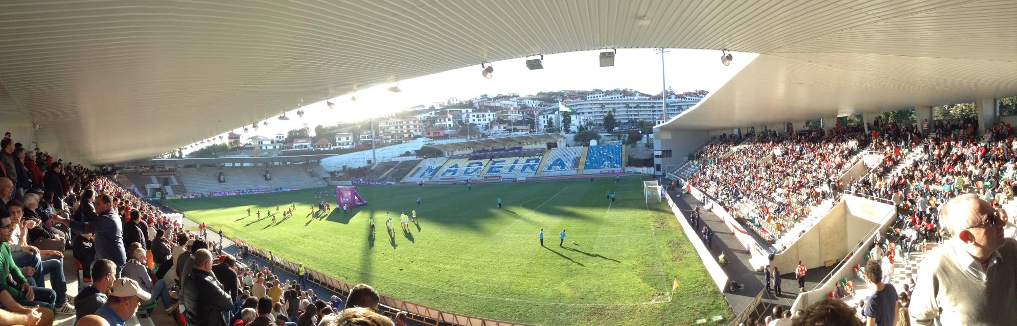 Marítimo Stadium January 2015 CSMvsSCB